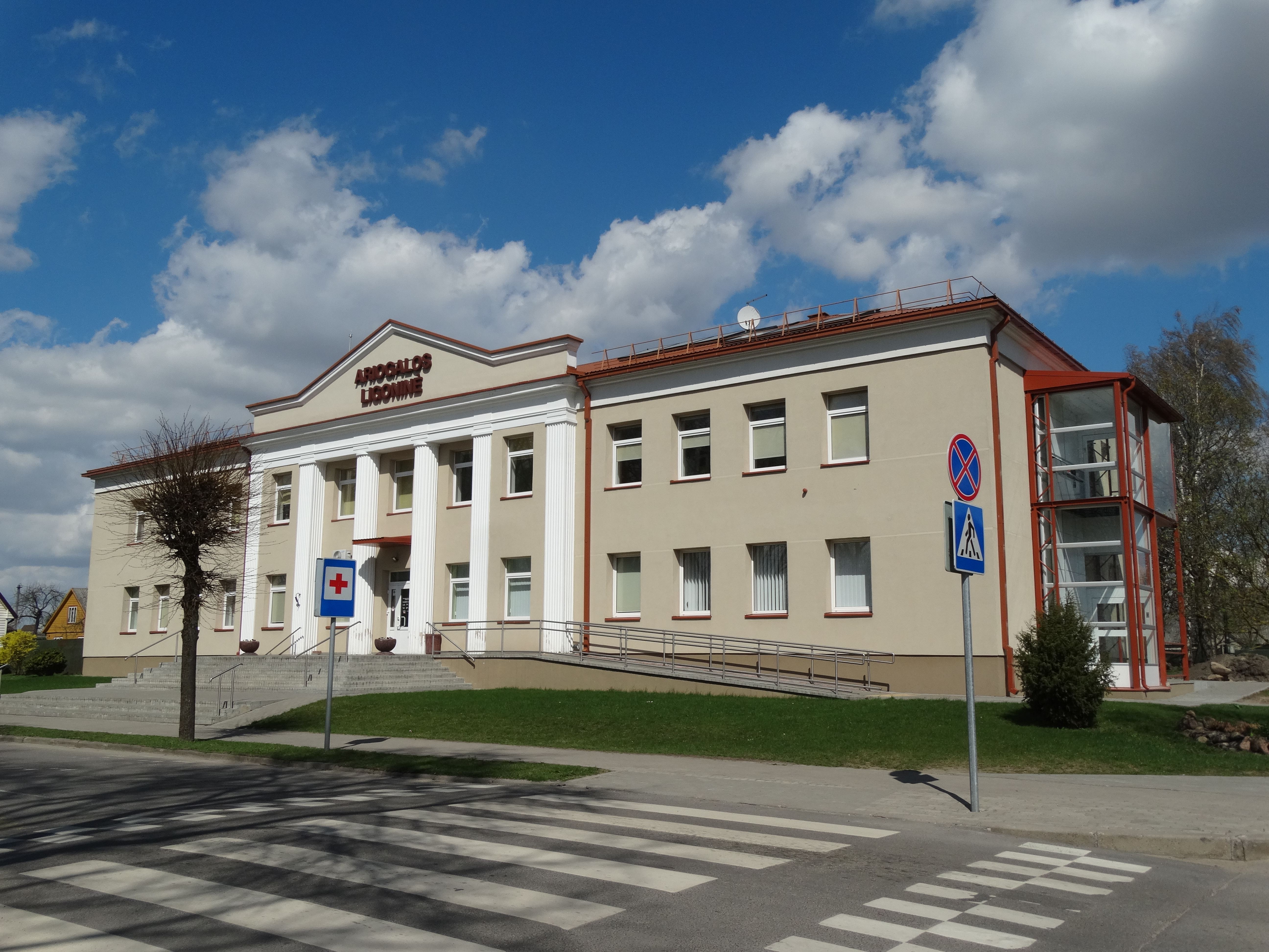 Hospital, Ariogala, Raseiniai district, Lithuania